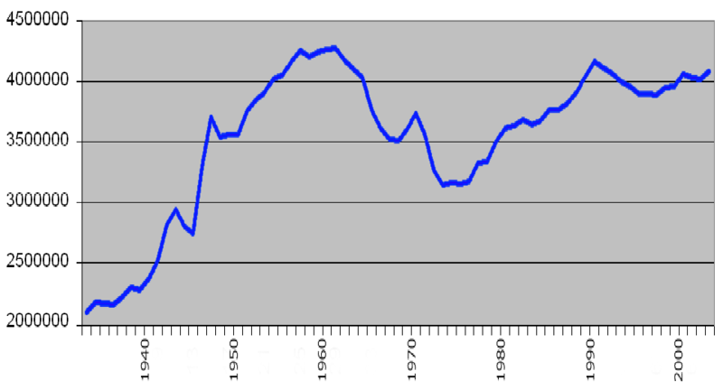 Chart of Birth Rate in USA between 1934 and the present